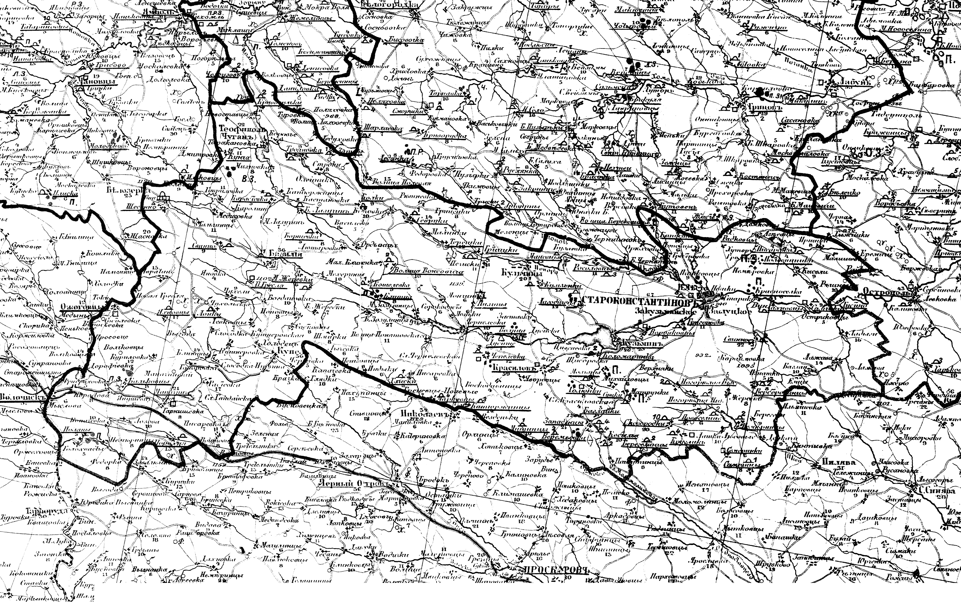 Map of Starokonstantinovski Uezd, Russian Empire of 1900 (a part of archaeological map by Antonovich).